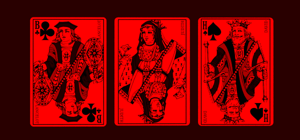 Anaglyph scene with playing cards. Left image.